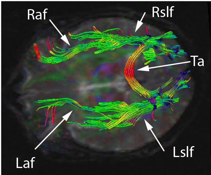 This is an anonymous clinical image provided by Aaron G. Filler, MD, PhD. The patient has signed a release for use of the anonymized image for educational, research, and teaching purposes. The image was converted from DICOM acquisition format into jpeg format, anonymized, and posted by Dr. Filler. It is intended for GDFL licensure for reuse for academic, scientific, educational uses without further permissions. Attribution to Aaron Filler, MD, PhD is requested.